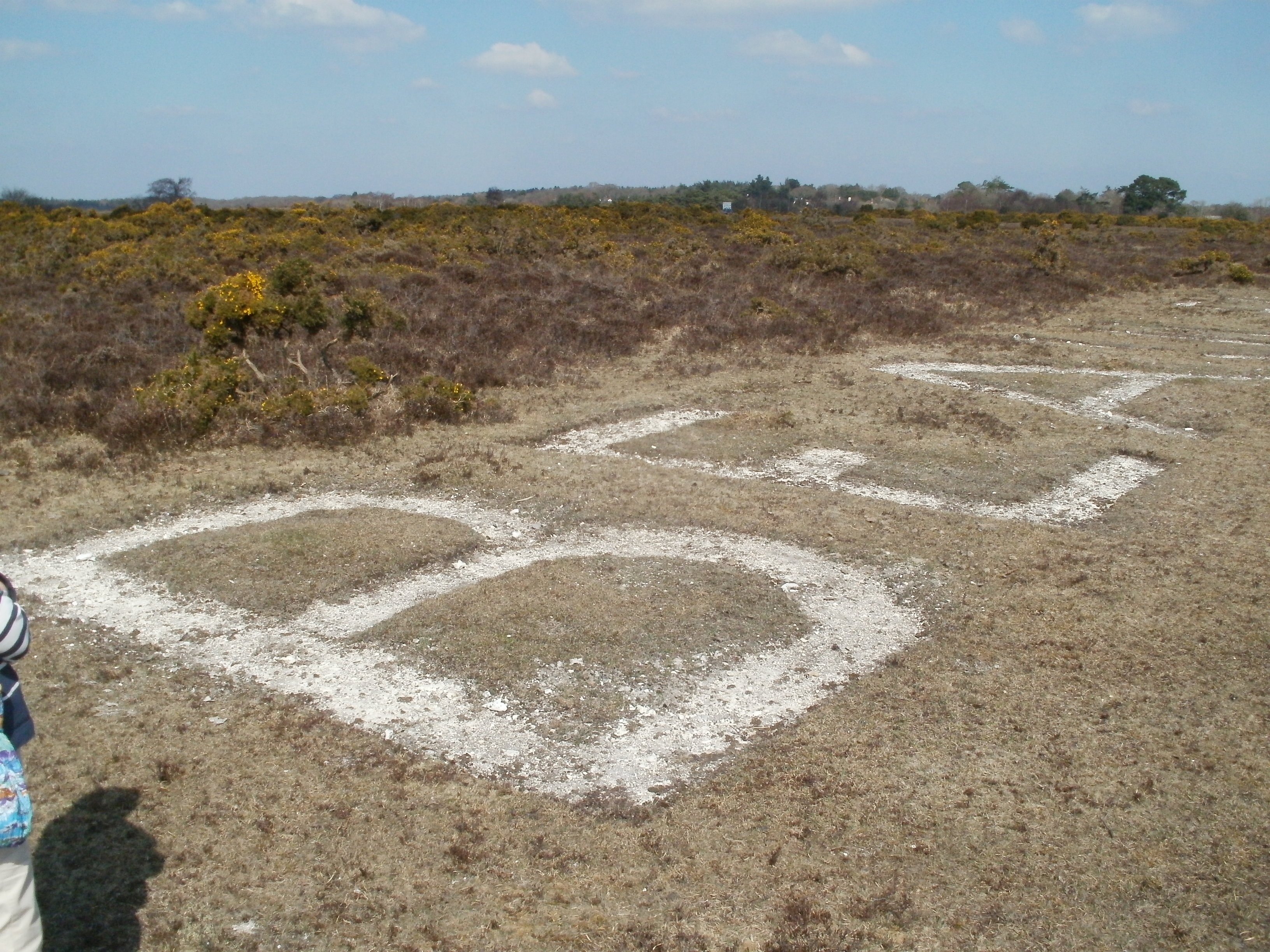 Partial view of the restored RFC Beaulieu identification letters at East Boldre. P4062211